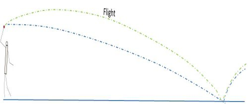 Cricket ball flight, when a spinner is bowling